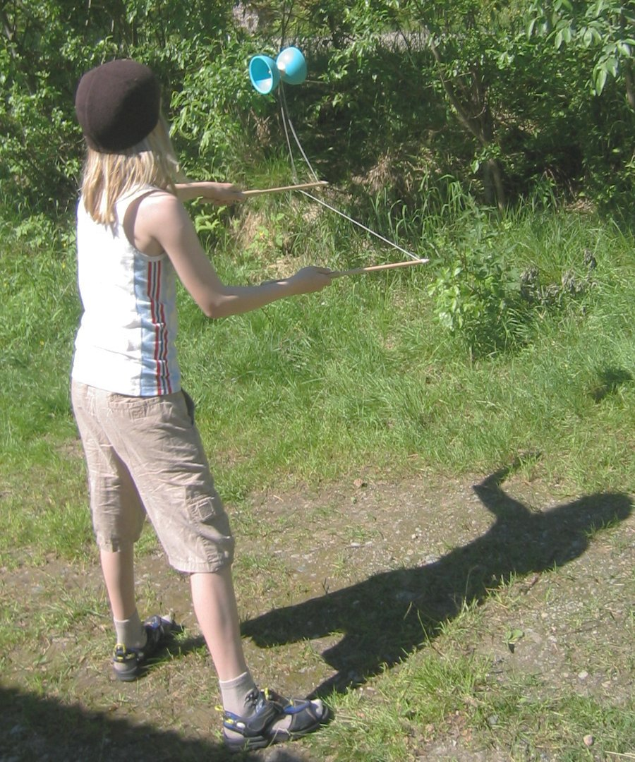 Bendik Faanes doing a left wrap with his diabolo. Photographer: Einar Faanes Camera: Canon Ixus v3 Afterwork: Cutting and regulation of light and colour in the GIMP